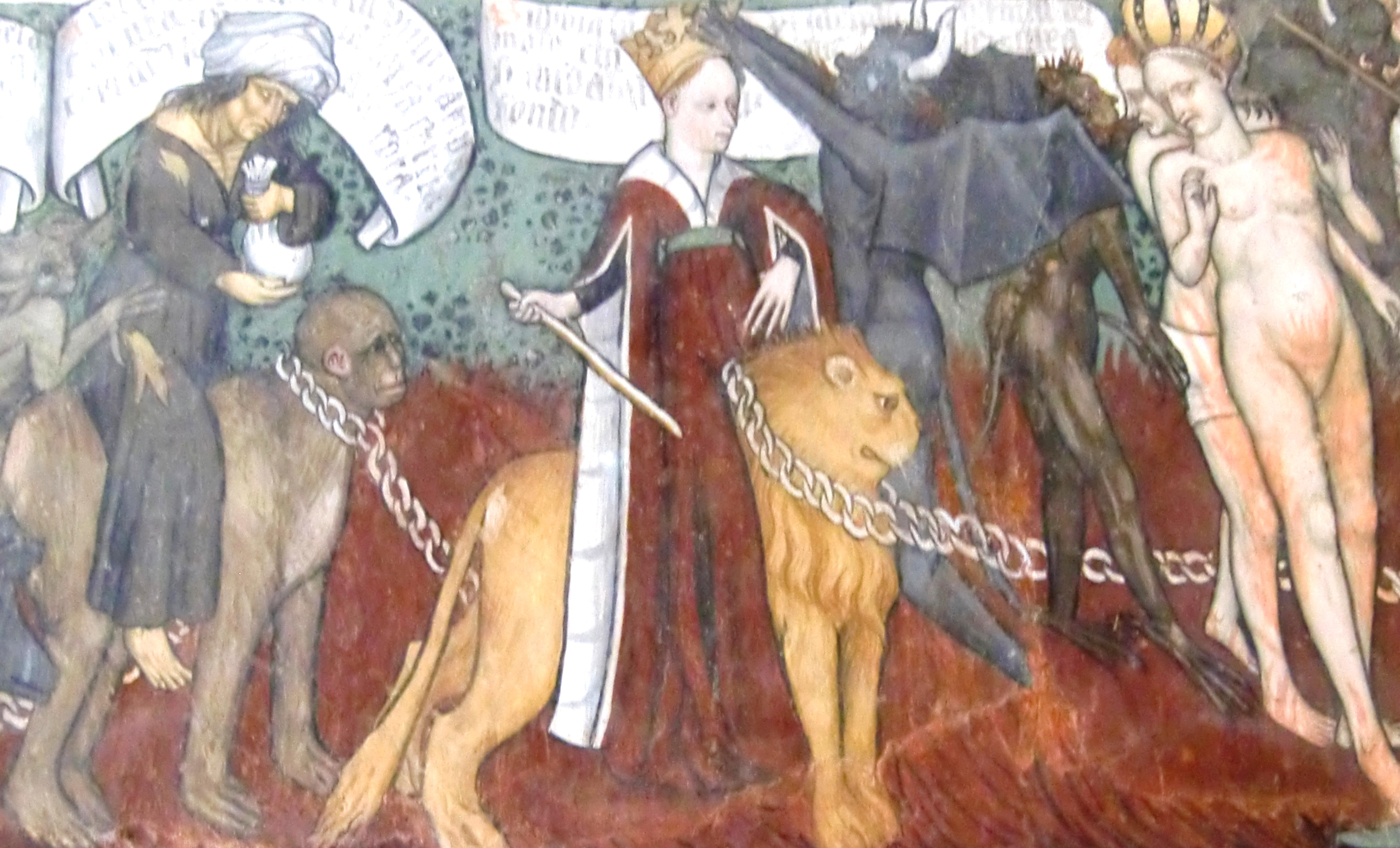 Aimone Duce, Allegory of Vices, detail, ca.1430, fresco, Cappella di Missione, Villafranca Piemonte